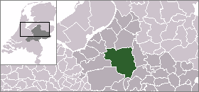 Location of Apeldoorn